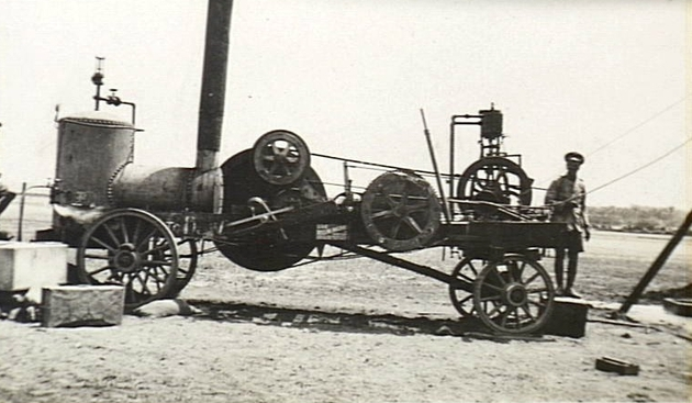 AWM caption : Deir el Belah, Palestine. c. 1916. A drilling machine used by Australian Army Engineers.